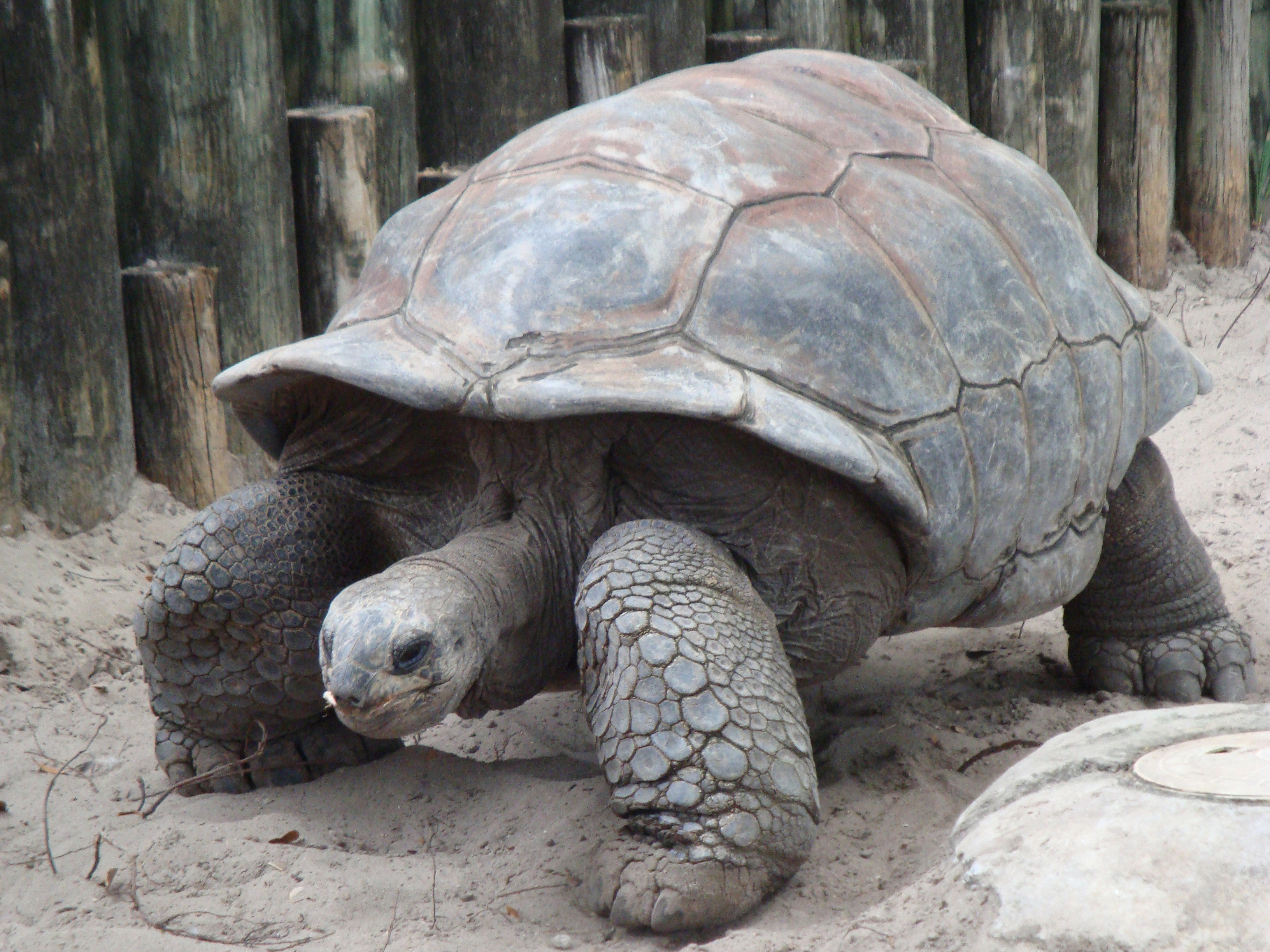 Aldabra giant tortoise = Aldabrachelys gigantea = Dipsochelys dussumieri